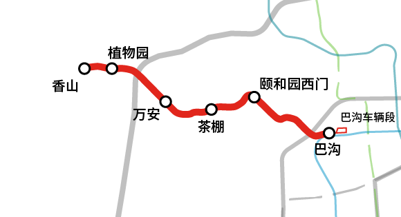 Route map of Xijiao Line, Beijing Subway. Drawn to the scale.